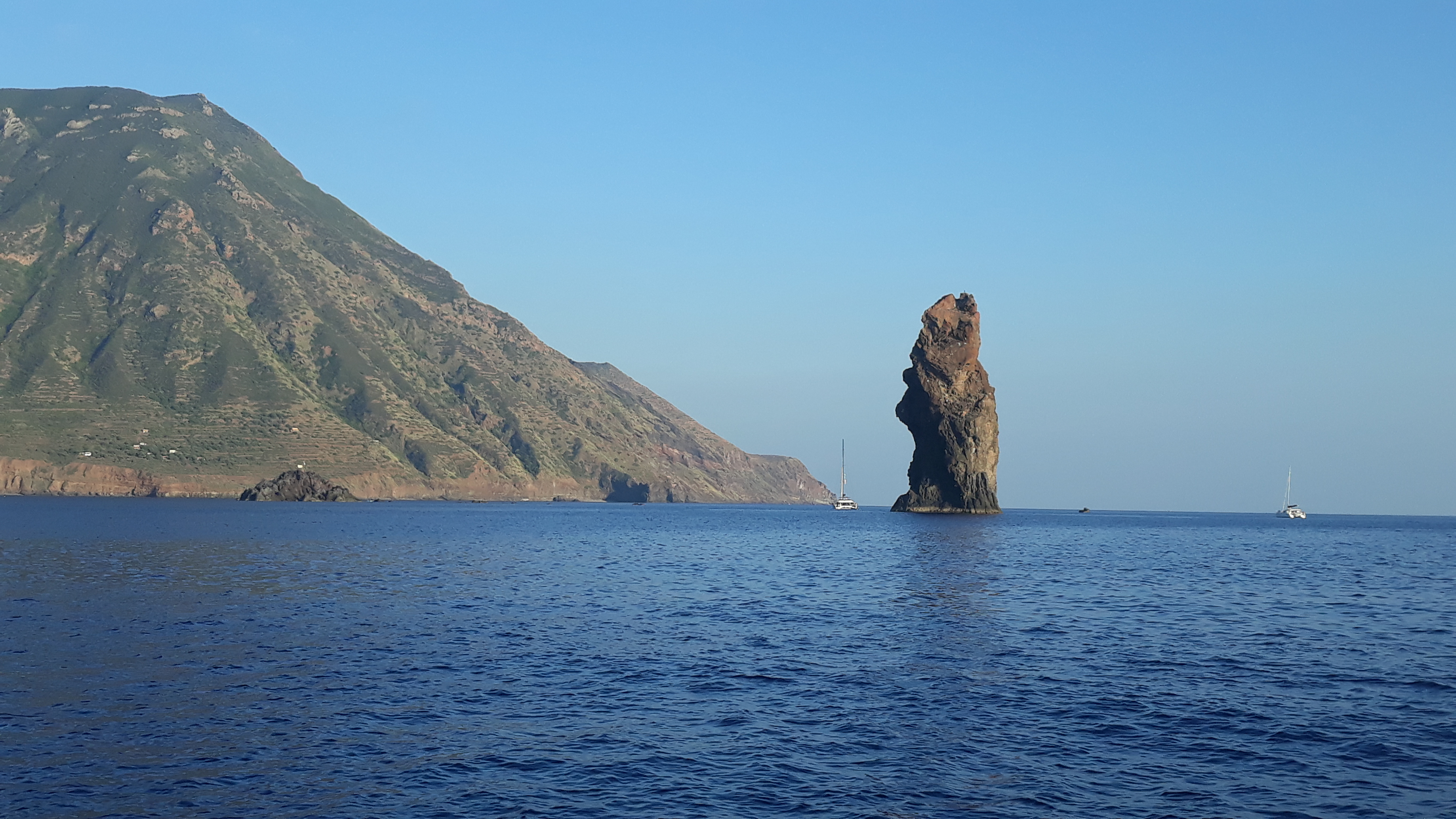 Zdjęcie przedstawiające wyspę Filicudi oraz iglice skalną